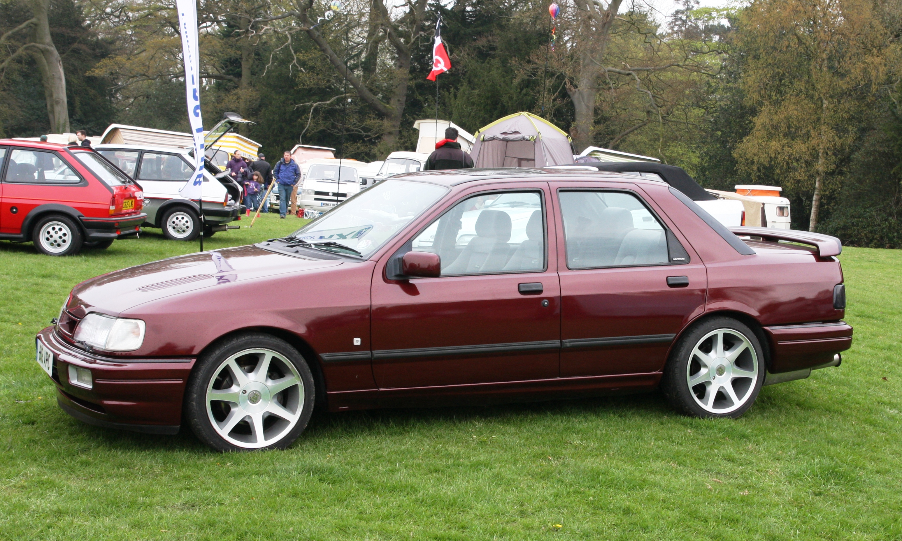 Ford Sierra RS Cosworth (1989)